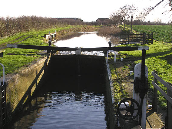 Standards lock, Taunton and Bridgwater canal Looking south, towards Taunton; farm buildings in the background are Whites.